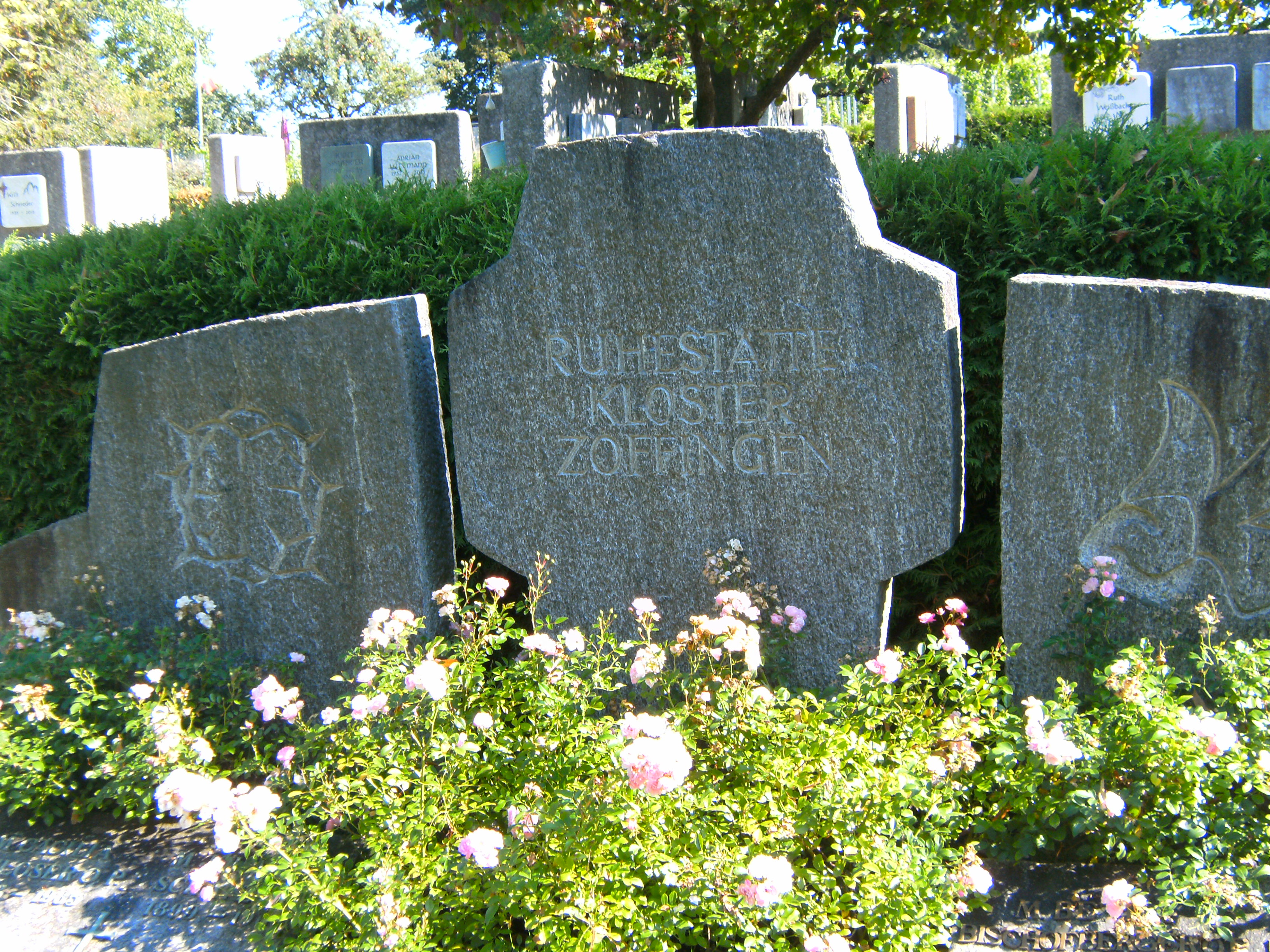 Hauptfriedhof Konstanz, Germany (main cemetery), Riesenbergweg. Gravesfor nuns of monastery Zoffingen in the northeastern part, area 14 A.